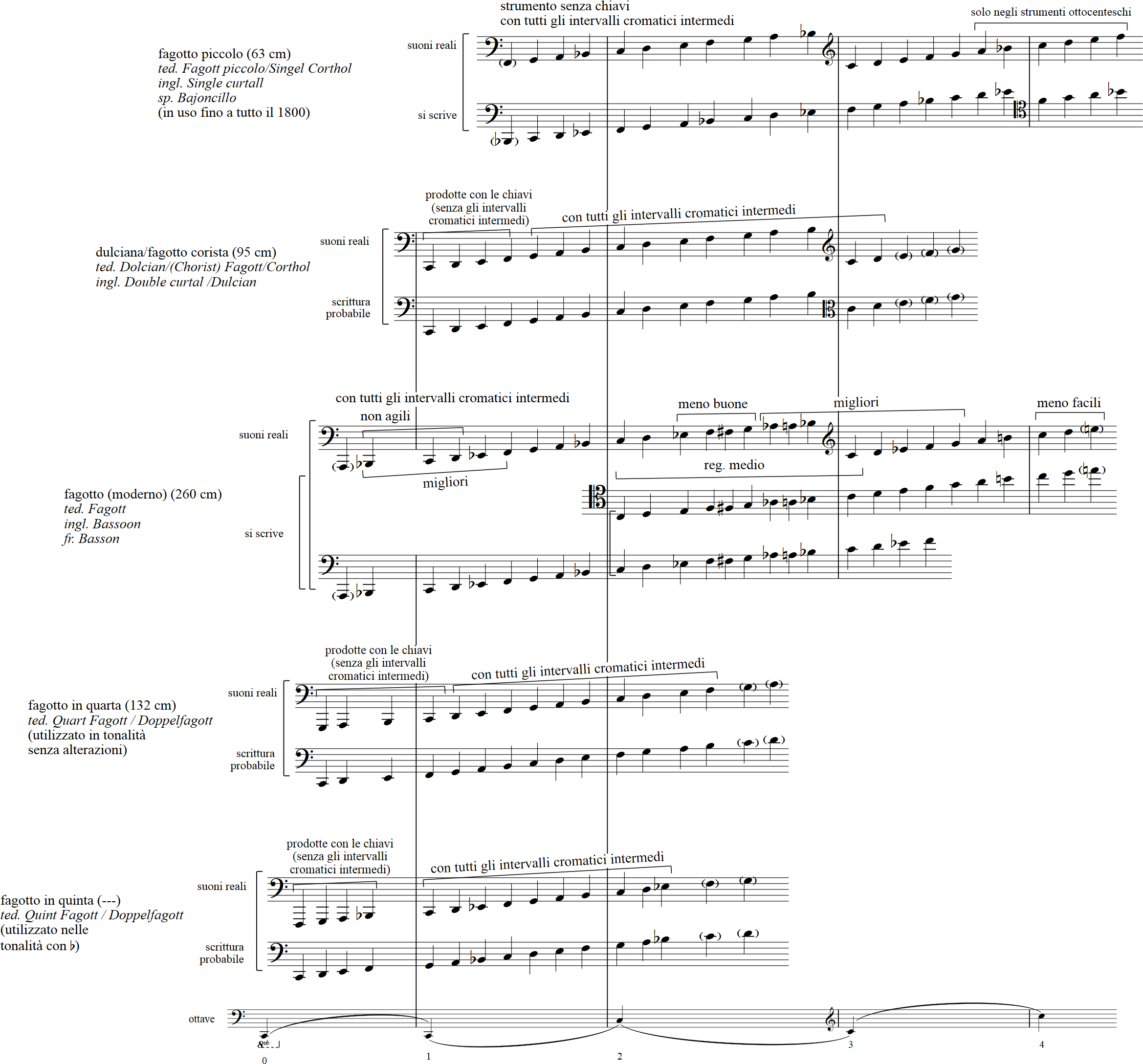 Playing range of the main types of basson